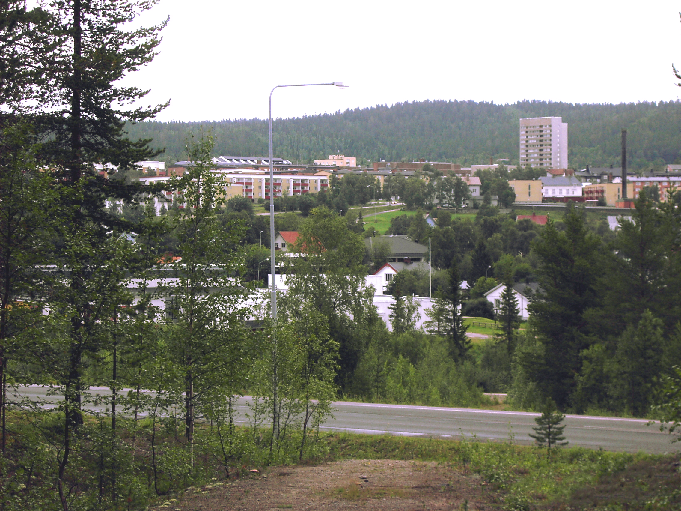 Malmberget, Gällivare Municipality, Sweden